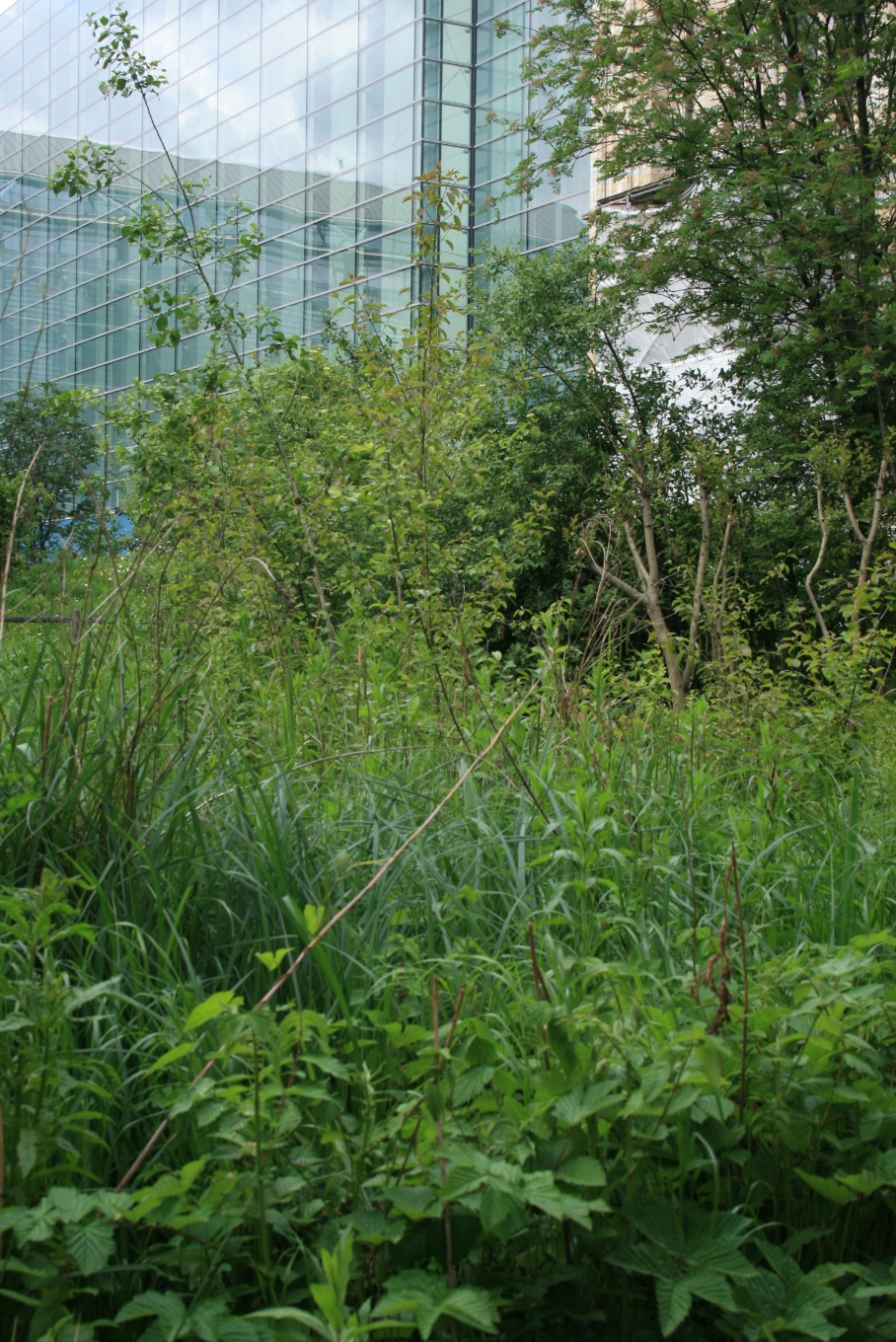 The Wildlife Garden at the Natural History Museum in London